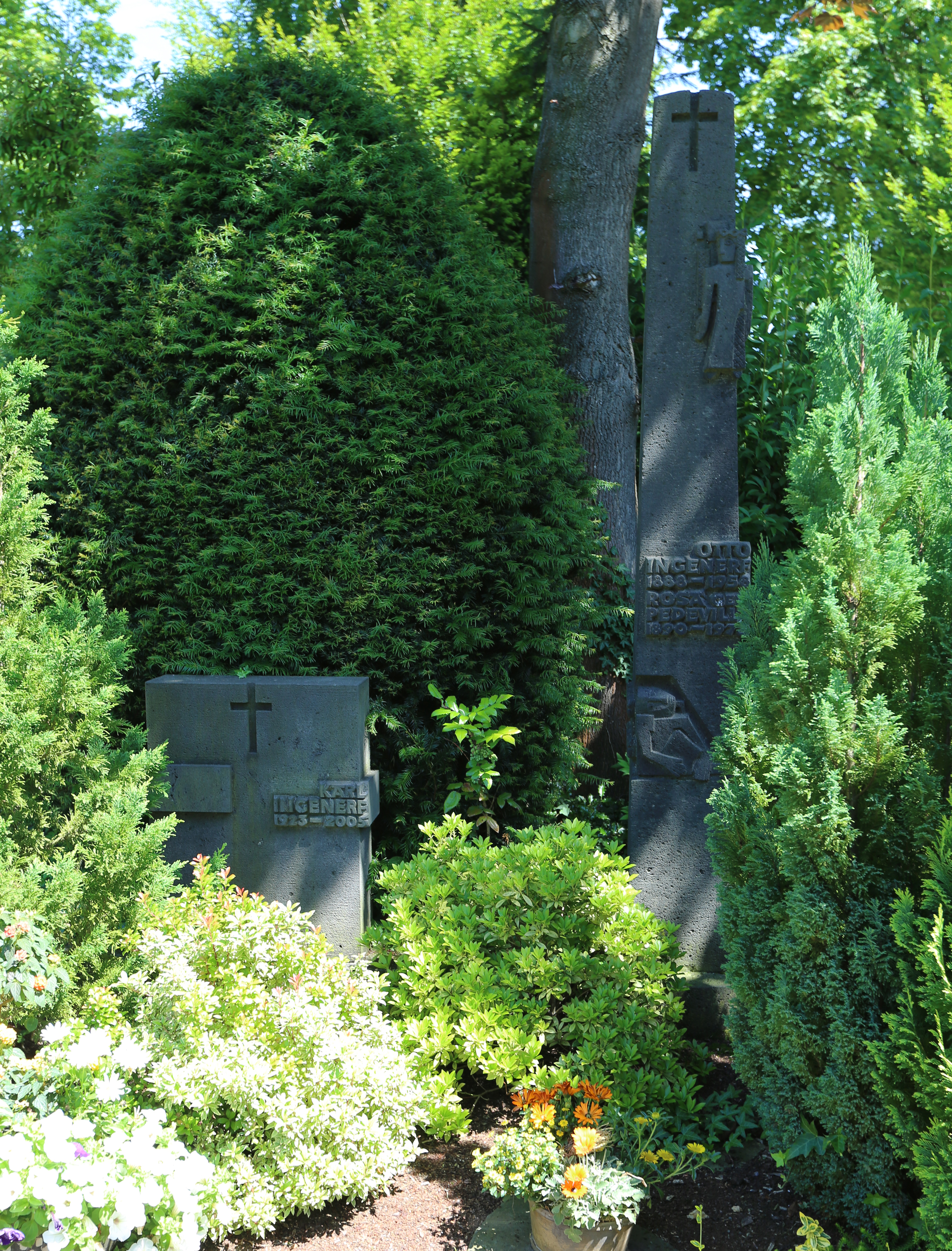 Family grave of Karl Ingenerf, former mayor in Hürth